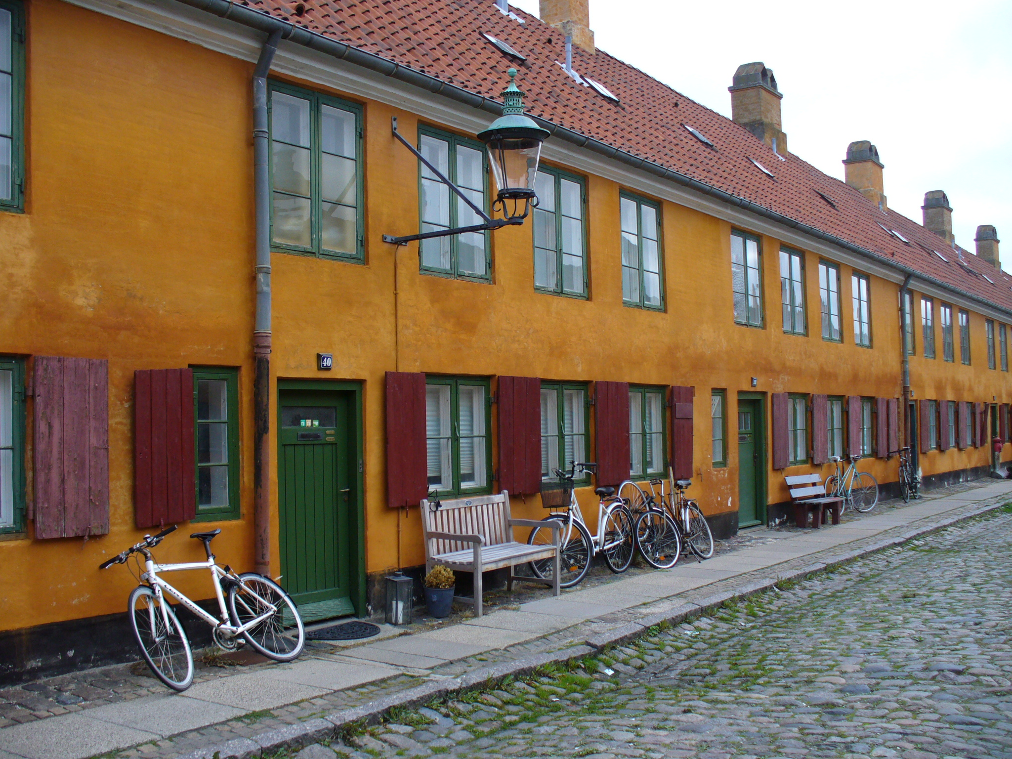 The street Suensonsgade in the area Nyboder in Copenhagen.